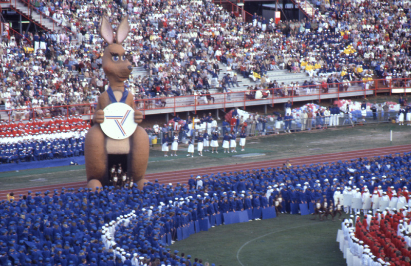 Opening ceremony of the 1982 Commonwealth Games in Brisbane. In this photo Matilda is seen as it goes around the stadium, winking to the crowd.